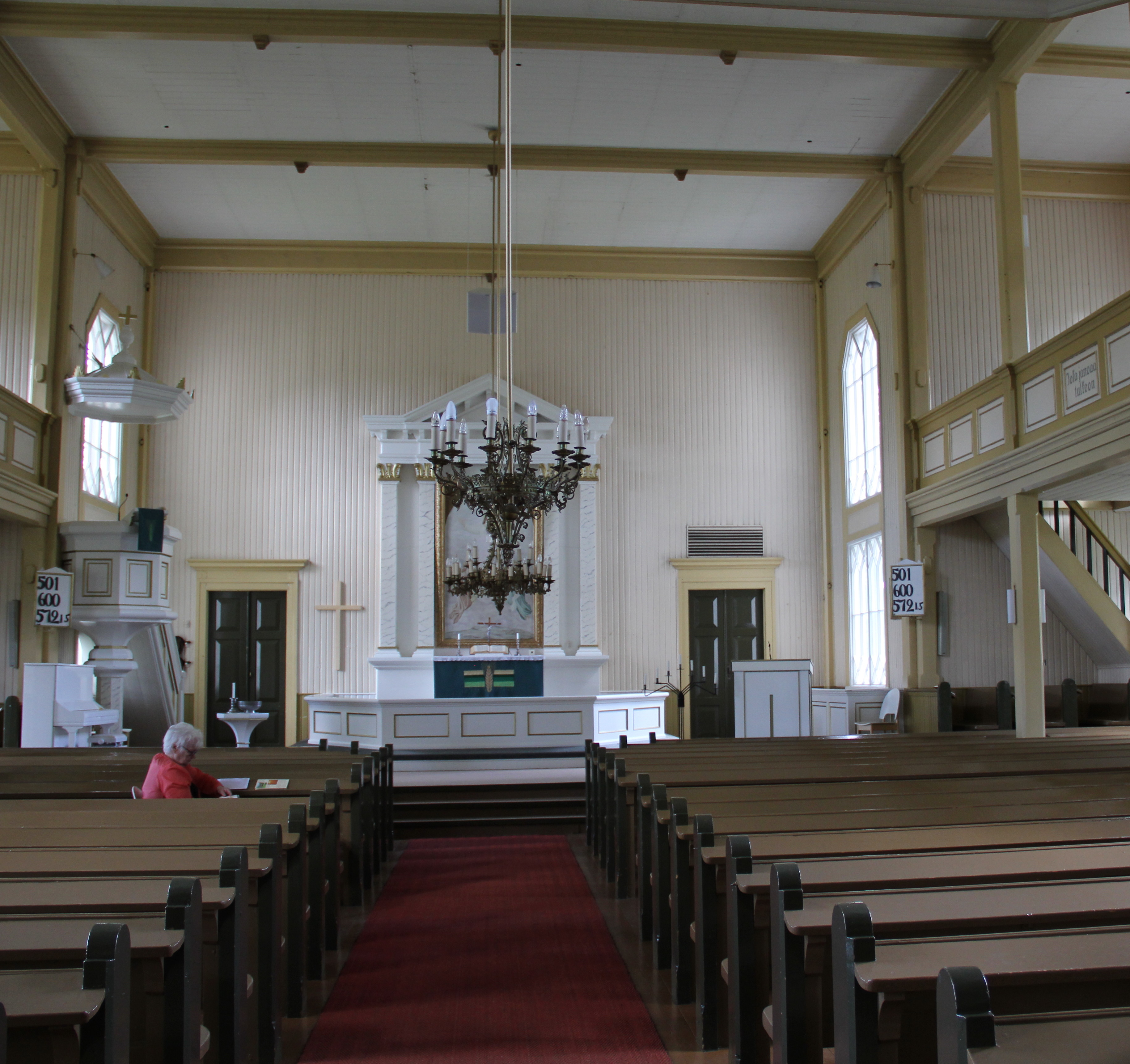 Enonkoski church, Enonkoski, Finland. - Completed in 1886, designed by architect Magnus Schjerfbeck. - Altar.